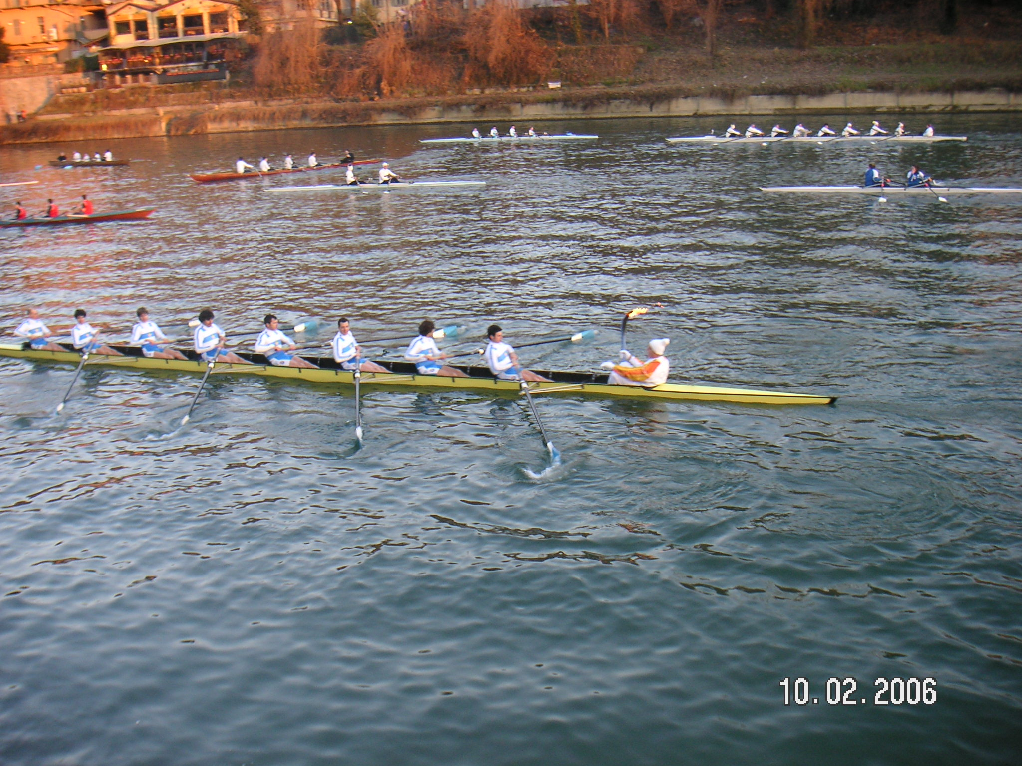 The 2006 Winter Olympics torch on a rowing boat, river Po, Turin, february 10, 2006. Author: Betto